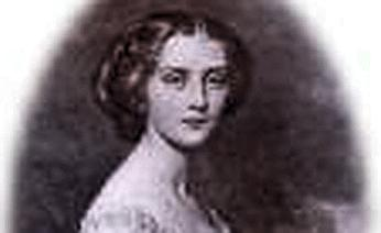 Painting of the first Female Olympic Gold Medalist of the Modern Olympics